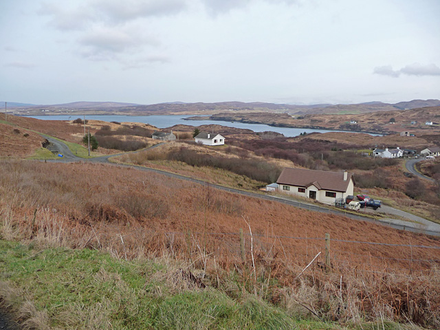 Part of Fiskavaig